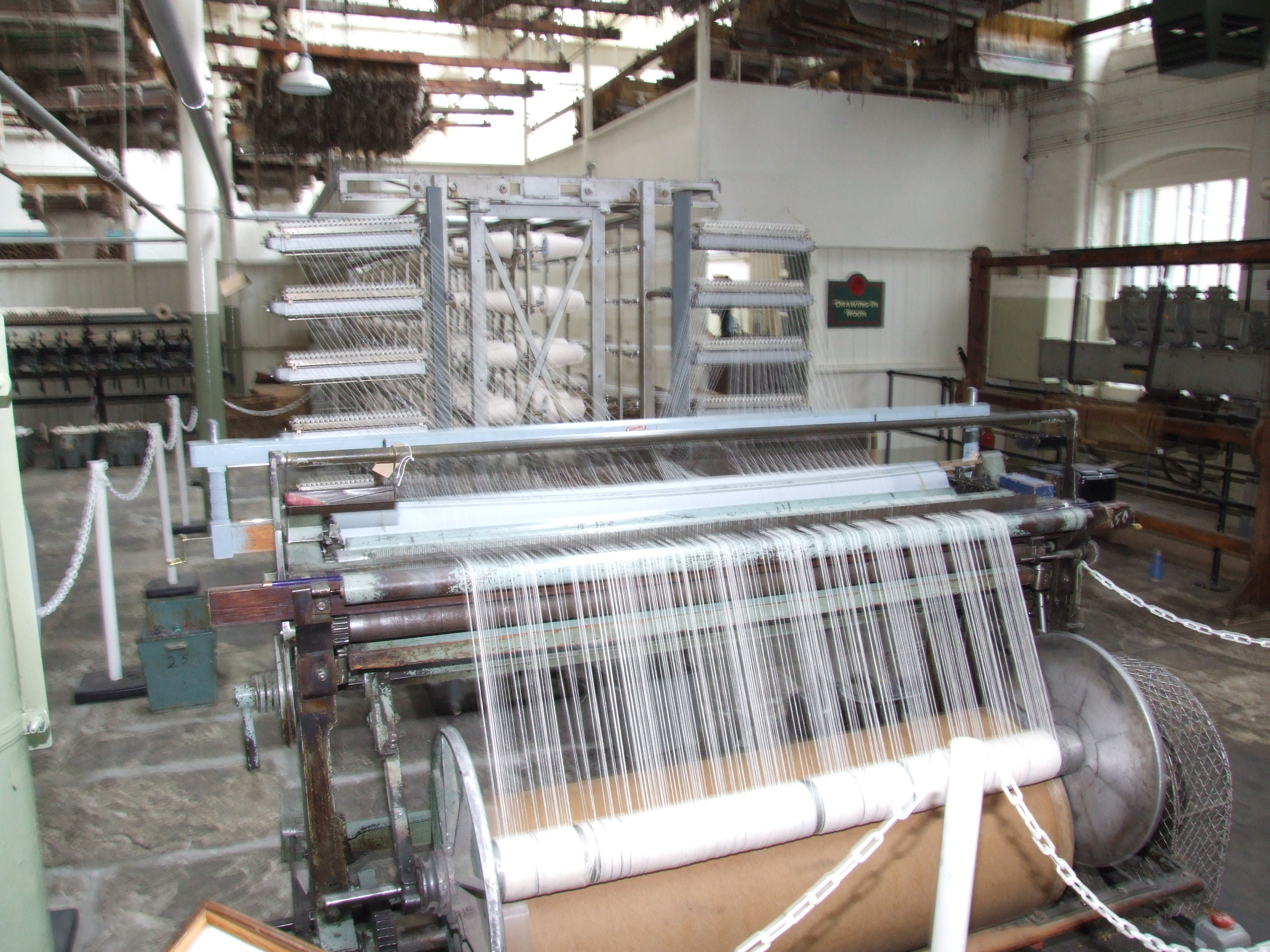 Queen Street Mill in Harle Syke, a suburb to the north-east of Burnley, Lancashire, was built in 1894 for the Queen Street Manufacturing Company. It closed on 12 March 1982 and was mothballed, but was subsequently taken over by Burnley Borough Council and used as a museum. In the 1990s ownership passed to Lancashire Museums. Unique in being the world's only surviving steam-driven weaving shed.